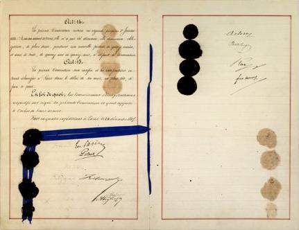 Latin Monetary Union Treaty (1865)